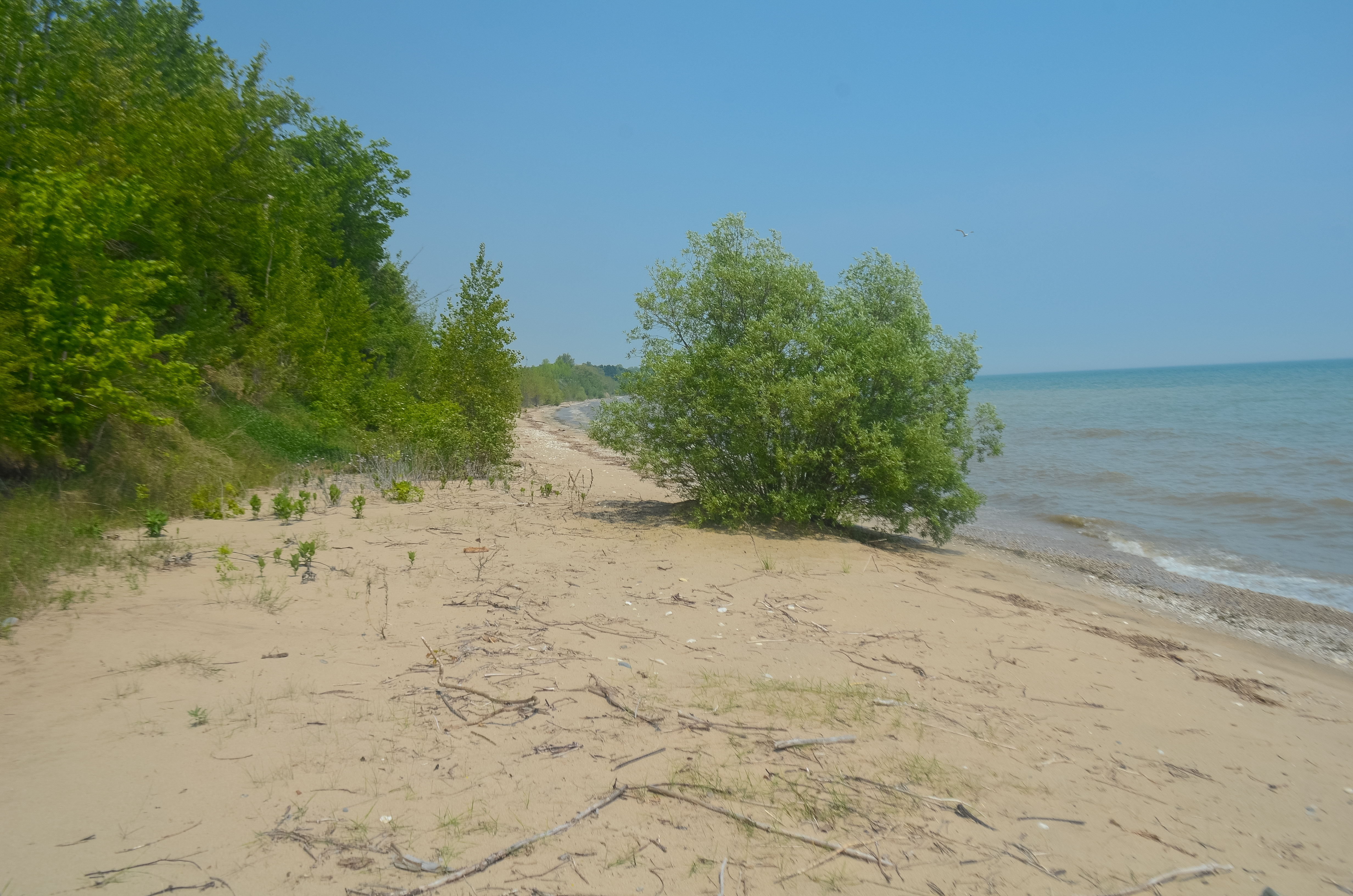 Two Creeks Buried Forest Wisconsin State Natural Area #50 Manitowoc County